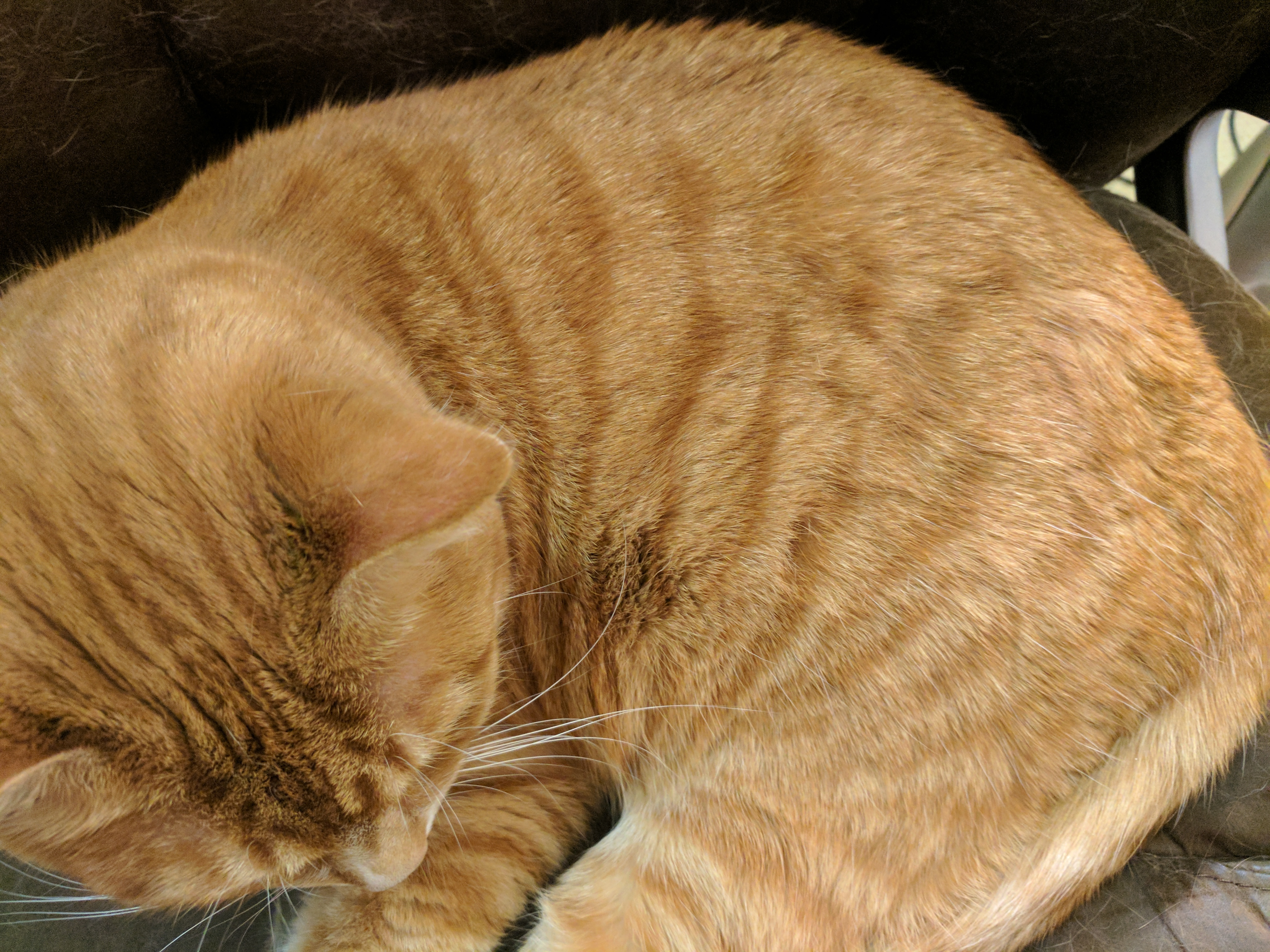 Orange adult American shorthair cat